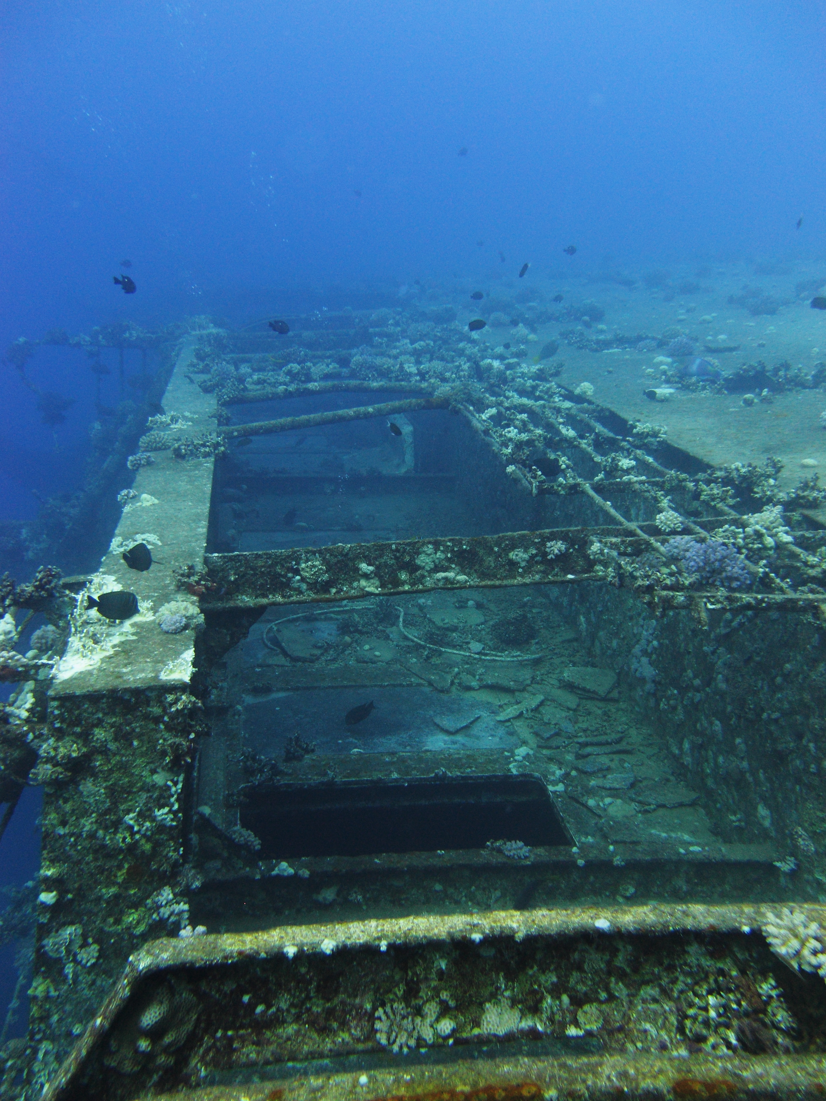 Salem Express 18 years after the tragedy